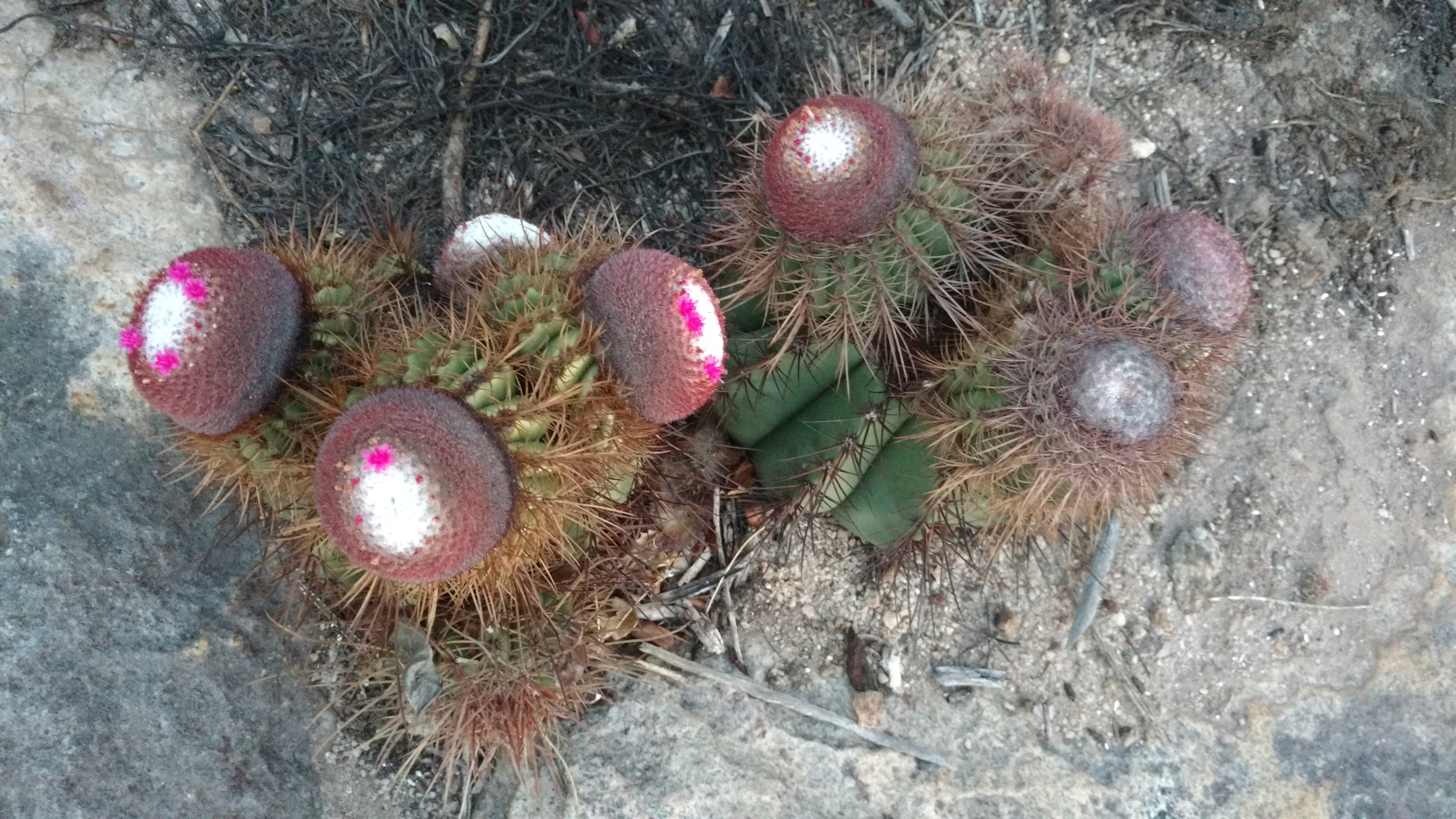 Typical vegetation of Algodão de Jandaíra - 5 years without rain - PB- Brazil